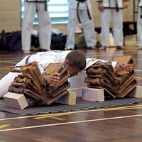 Rhee Tae Kwon-Do 2nd Dan tile breaking with a twin knife-hand strike in March 2007.